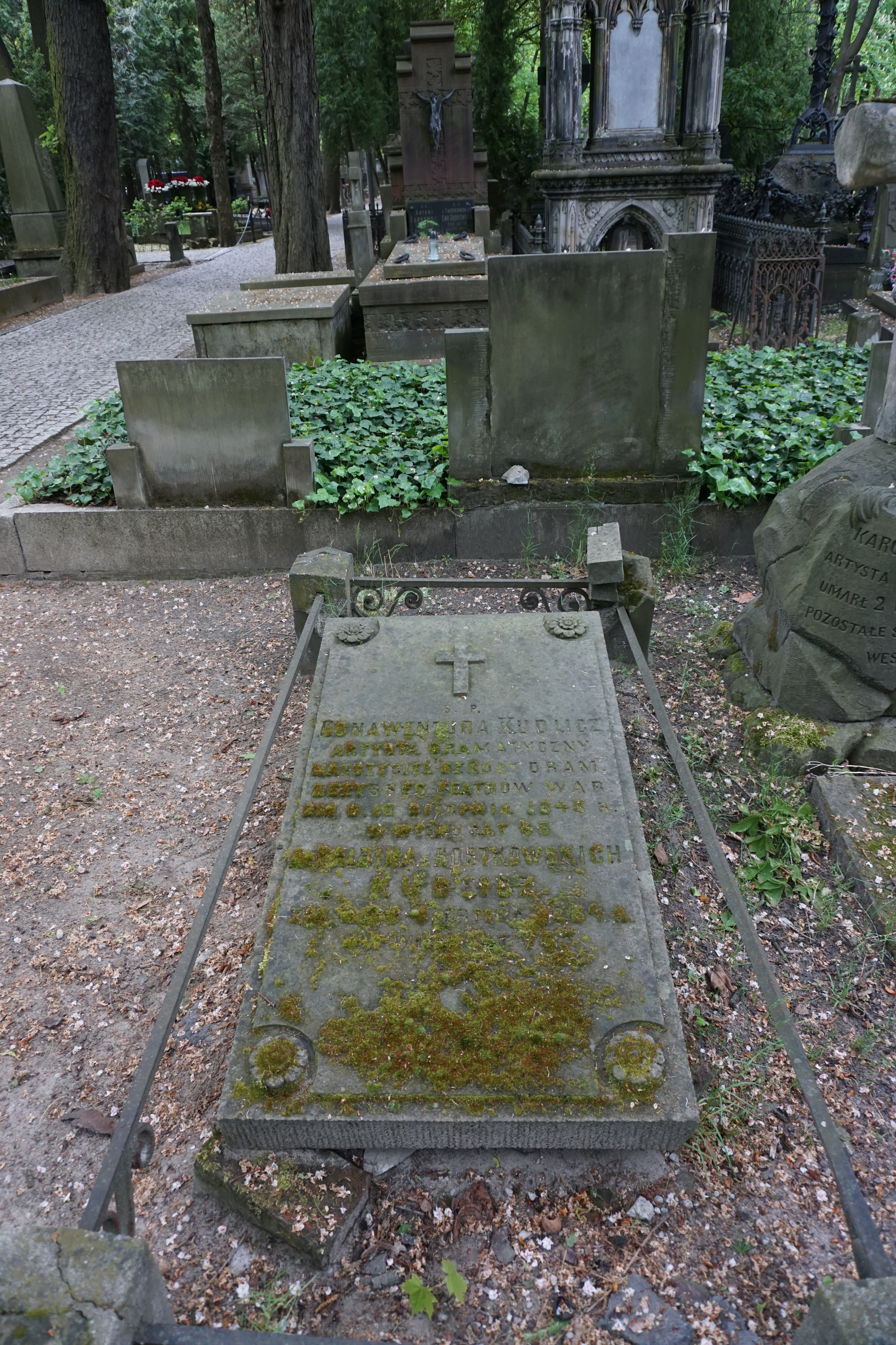 The grave of Bonawentura Kudlicz at the Powązki Cemetery (section 12, row 6, grave 2)